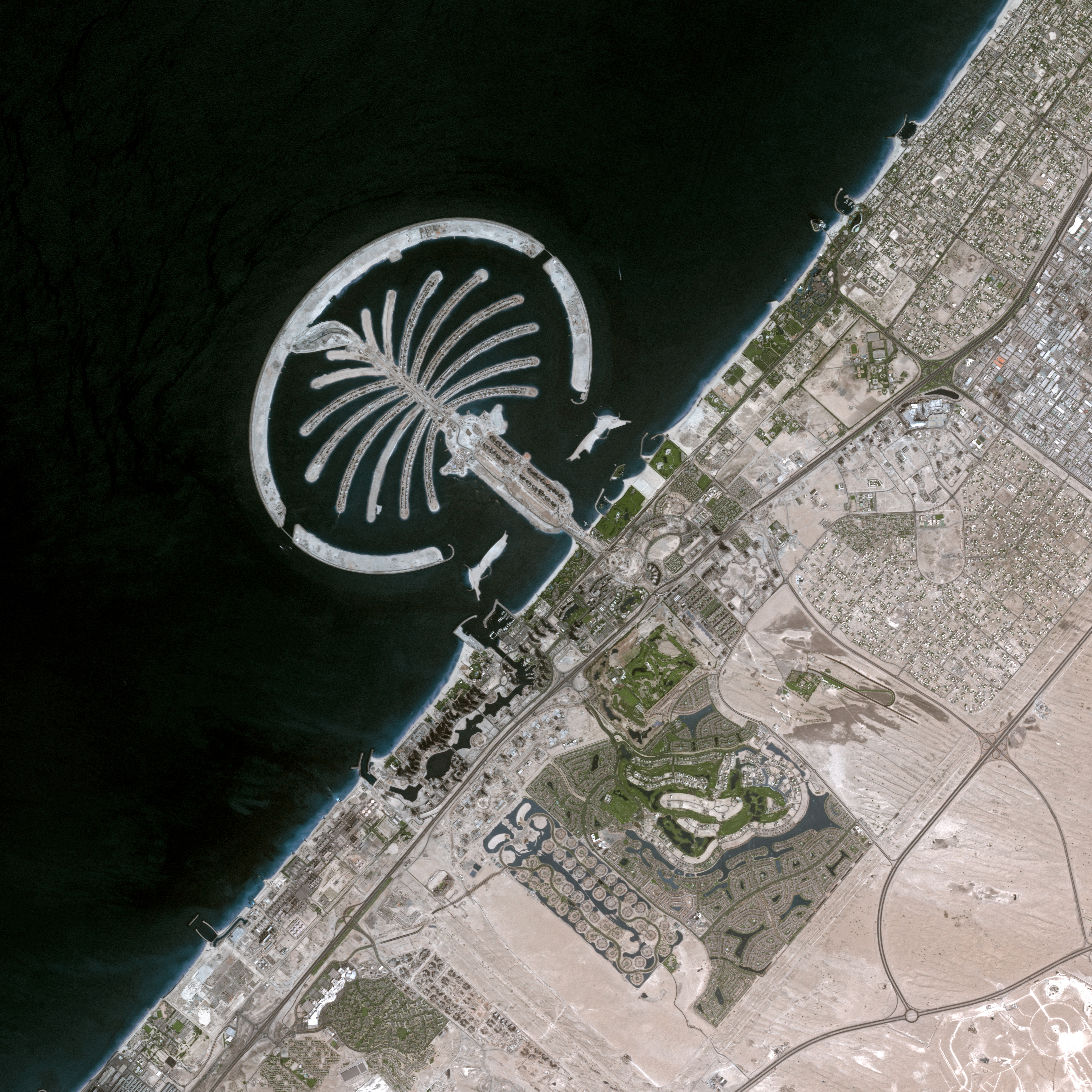 Dubai by SPOT Satellite